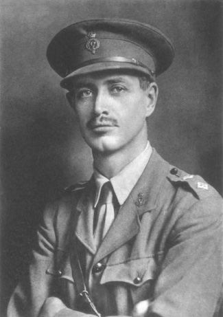 Oswald Cawley (1882-1918), MP, in a photograph published following his death in the First World War.